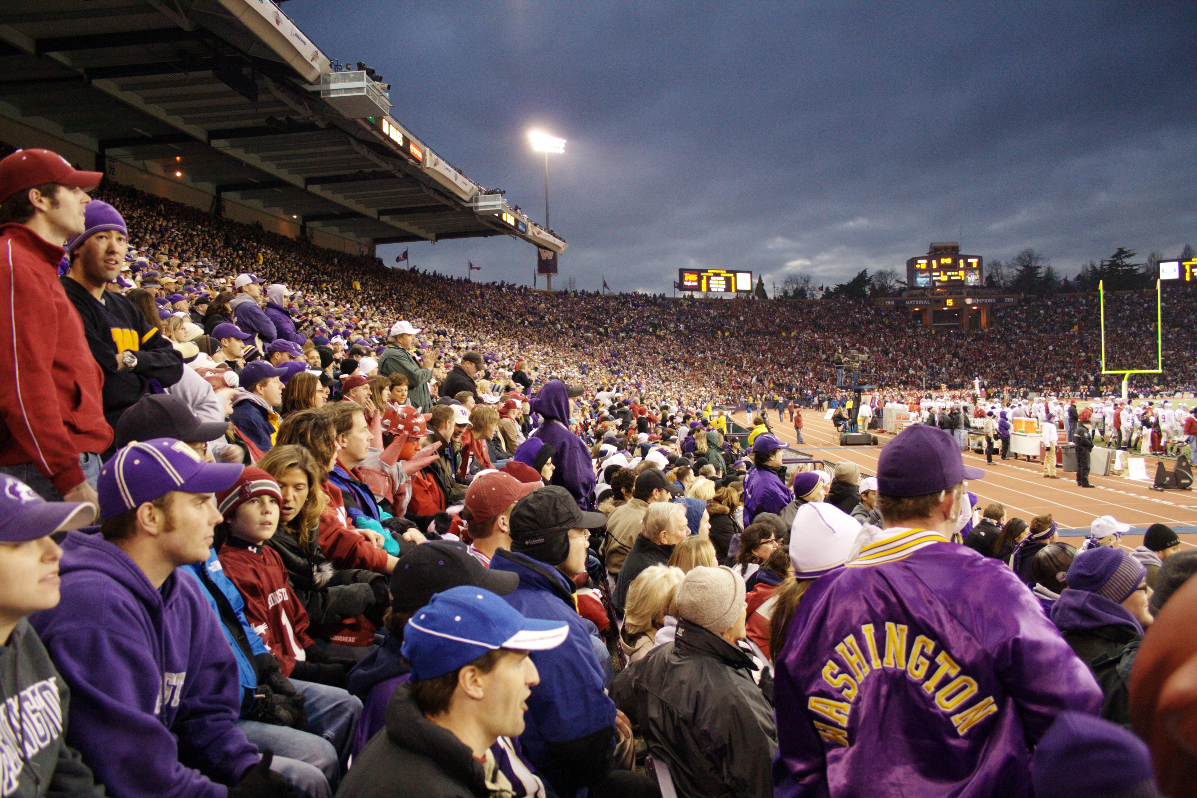 Crowd in the south stands at the 100th Apple Cup, Husky Stadium, Seattle, Washington